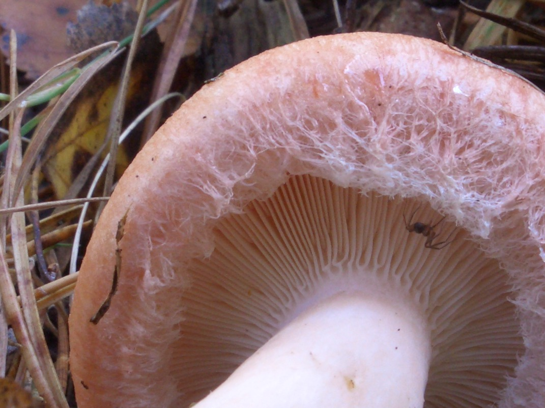 Young Lactarius torminosus; Woolly Milk-cap, showing forked gils near stem.